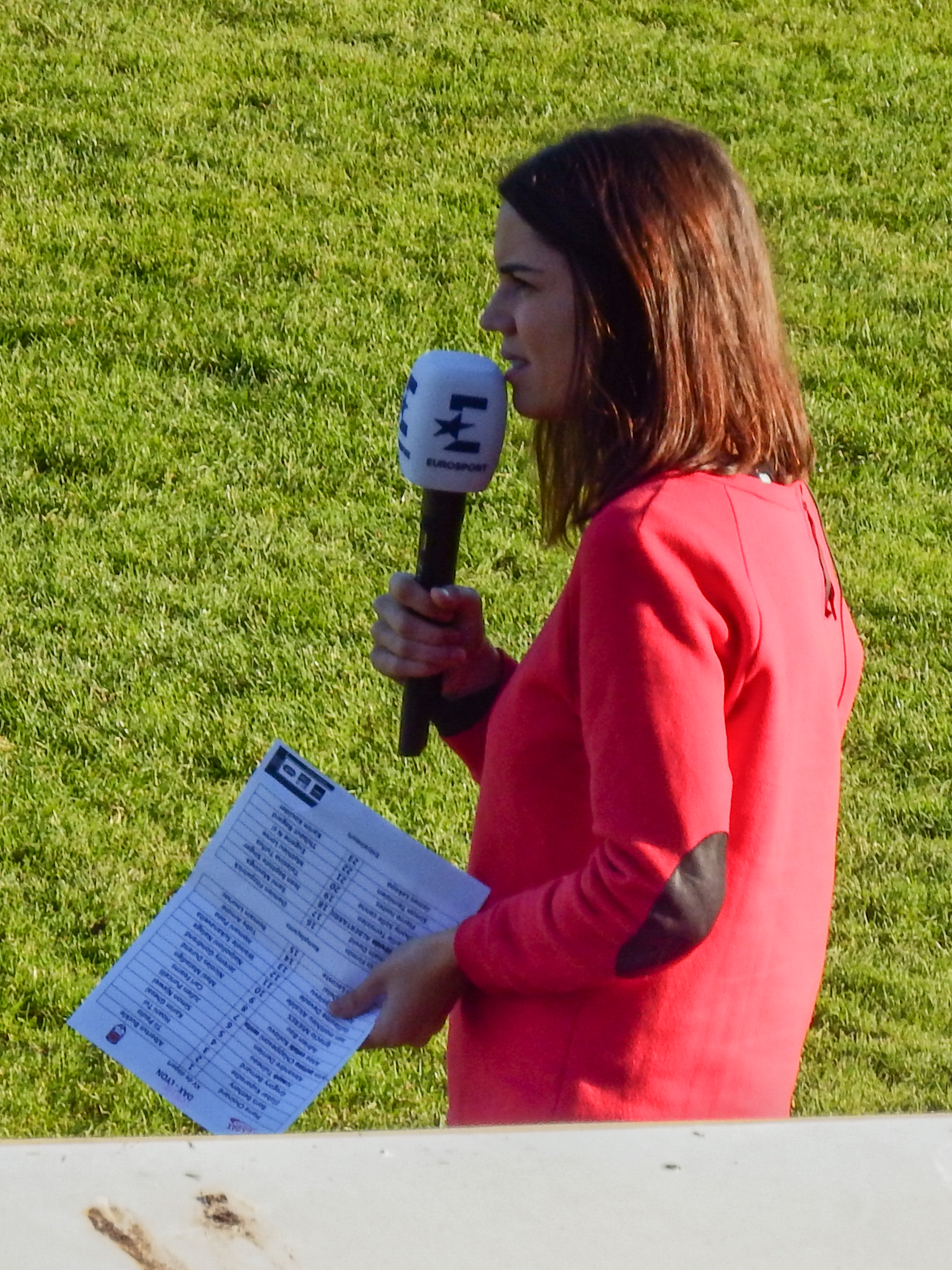 2015–16 Rugby Pro D2 season — 13 December 2015, Stade Maurice Boyau. Match between: US Dax — Lyon OU